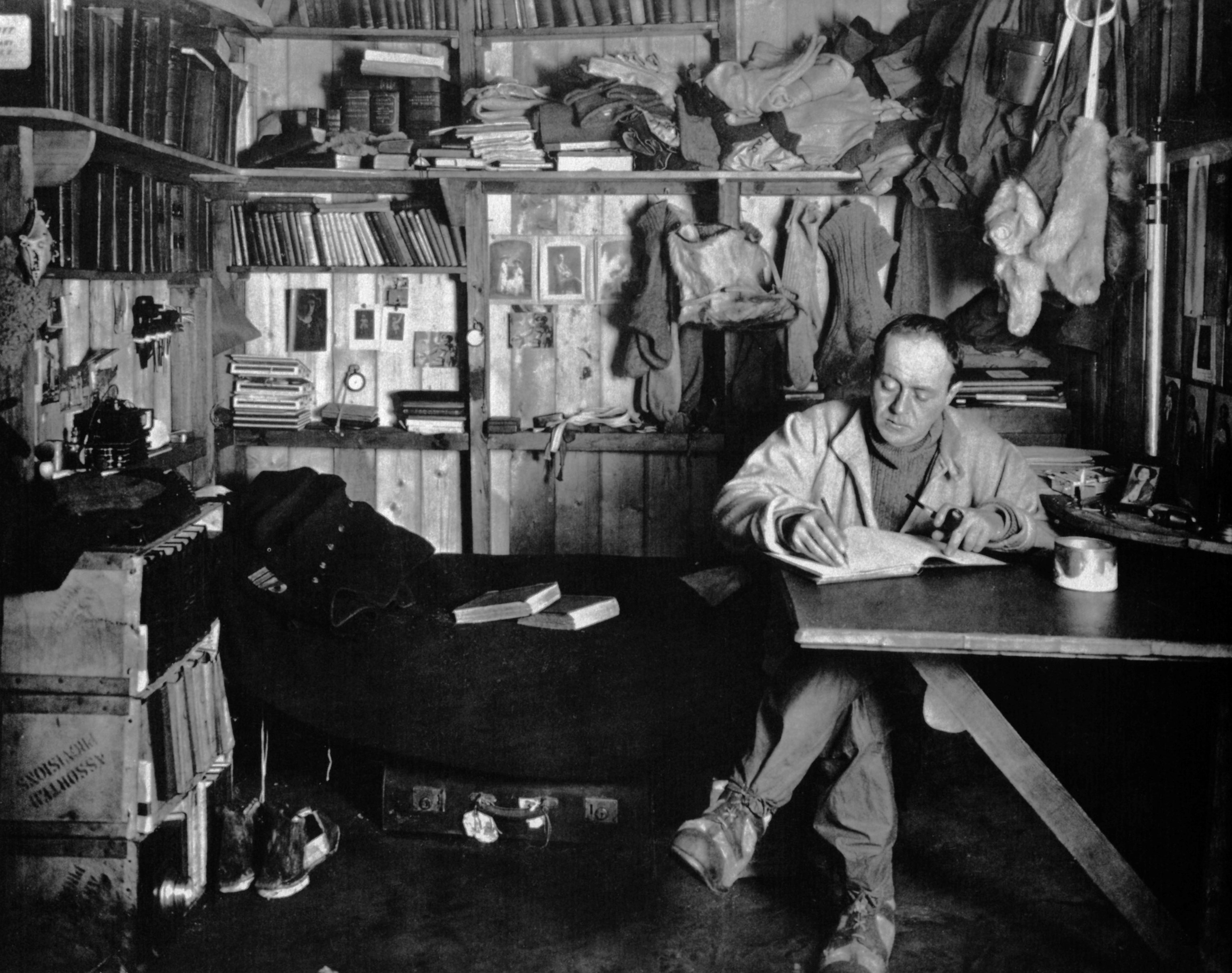 Robert Falcon Scott (1868-1912). Carbon print 35.6 x 45.7 cm: This photograph was registered for US copyrights by Ponting on 12 May 1913 (see LoC record). It was later published in Ponting, Herbert George (1922-January) [October 1921] "The Early Spring" in The Great White South (2nd ed.), London: Duckworth and Company, pp. Opposite p. 164 Retrieved on 2 November 2011. It is also available at This image is available from the United States Library of Congress's Prints and Photographs division under the digital ID cph.3a15336.This tag does not indicate the copyright status of the attached work. A normal copyright tag is still required. See Commons:Licensing for more information. Photograph shows Captain Robert F. Scott, sitting at a table in his quarters, writing in his diary, during the British Antarctic Expedition.